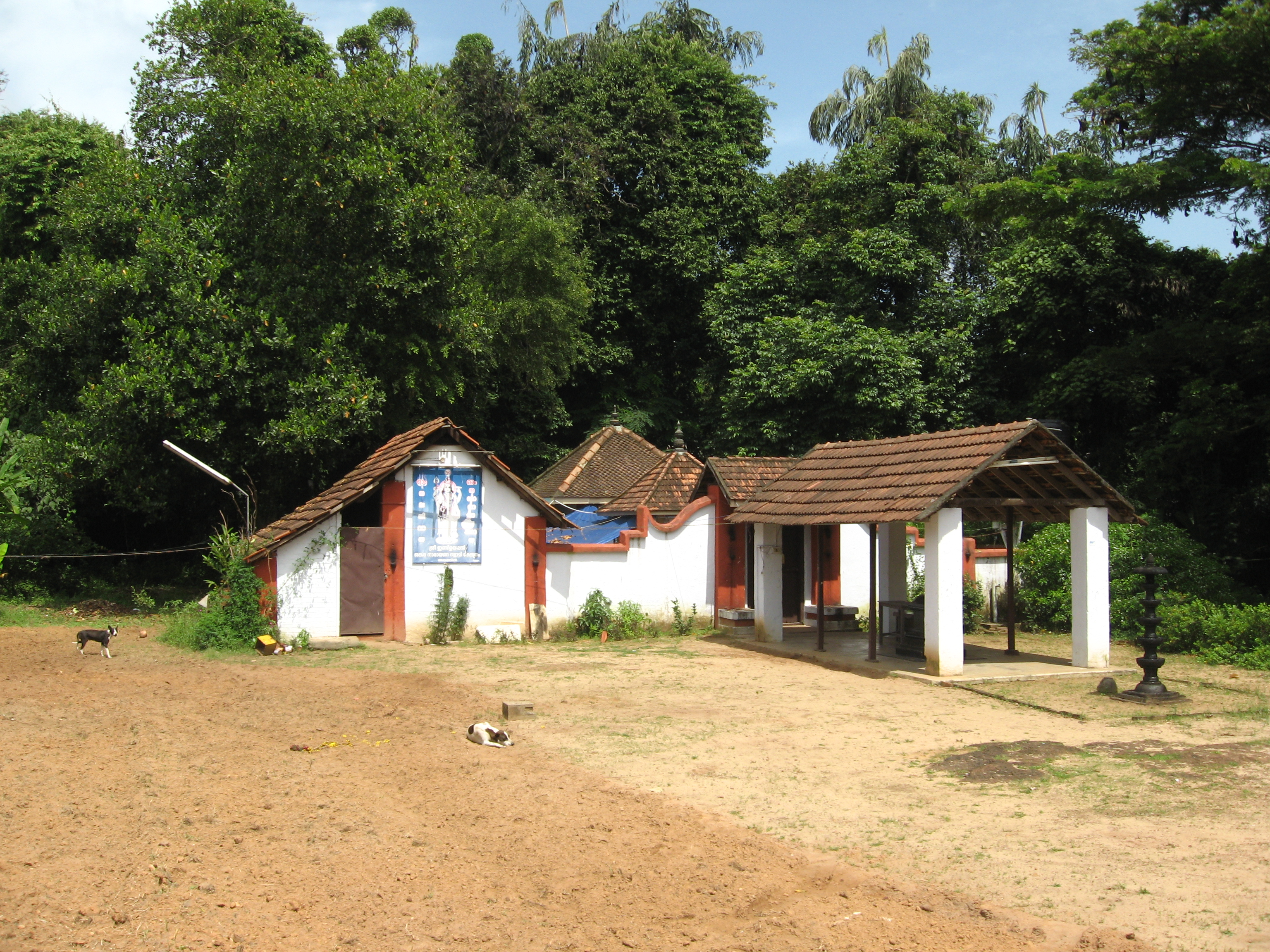 Indilayappan kavu